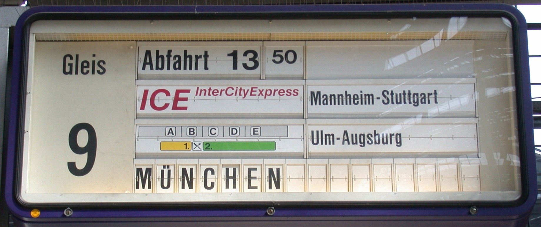 Split-flap display at platform 9 of central station Frankfurt am Main.